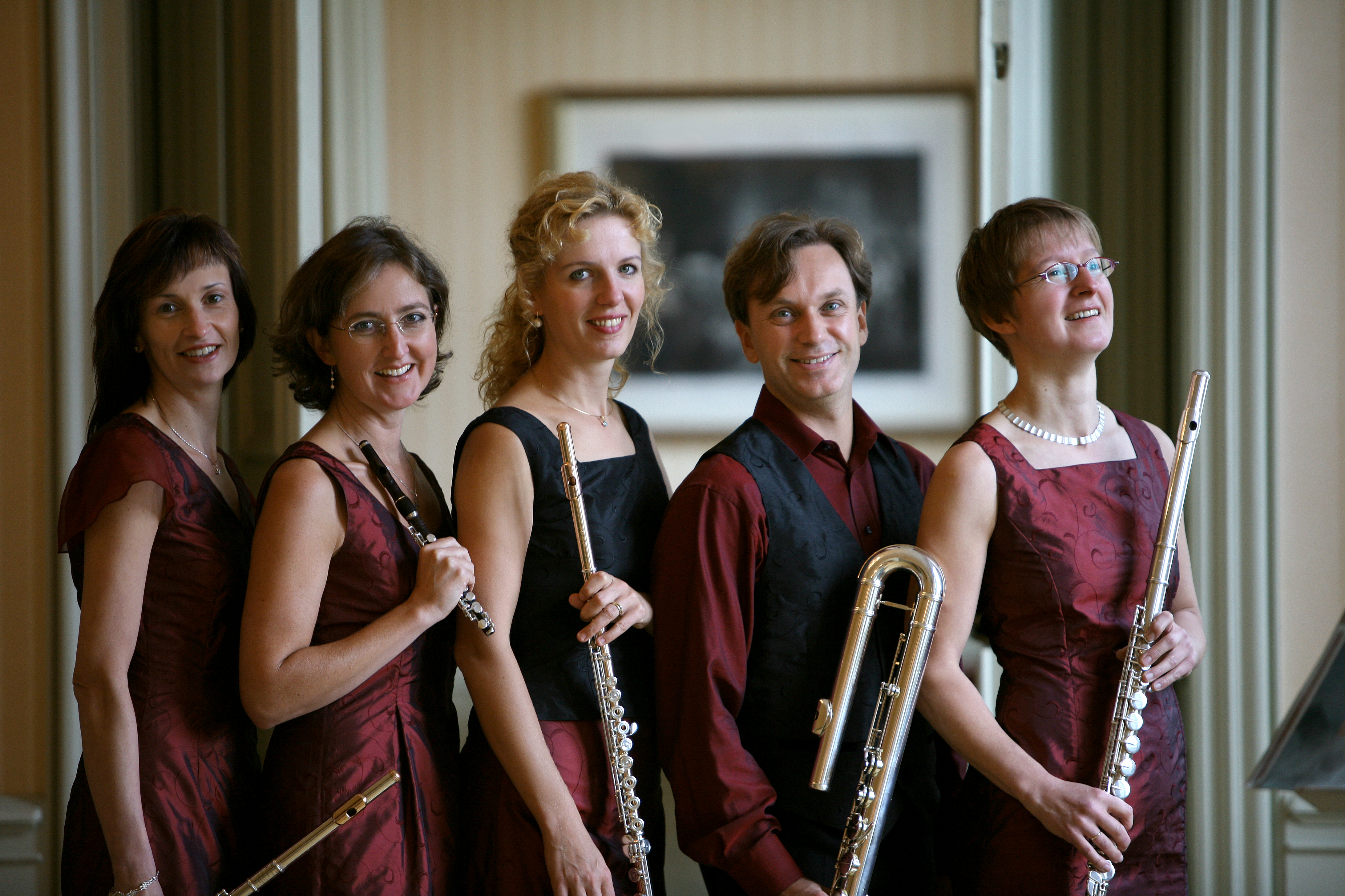 Ensemble "Quintessenz" in "Gohliser Schlösschen", Leipzig.